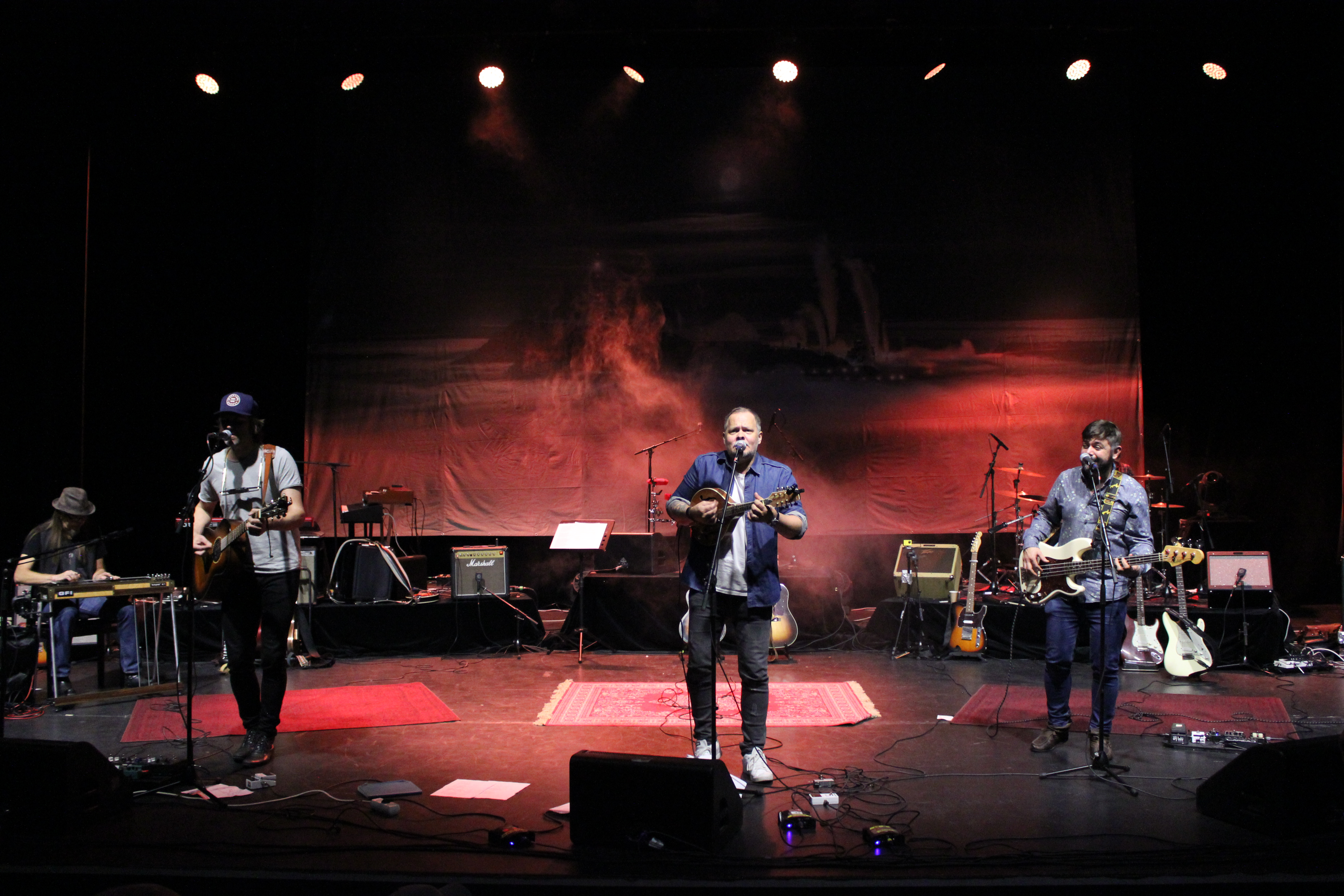 Willy Clay Band live in Kiruna, Sweden 2017 during the concert "Kirunas Finest"